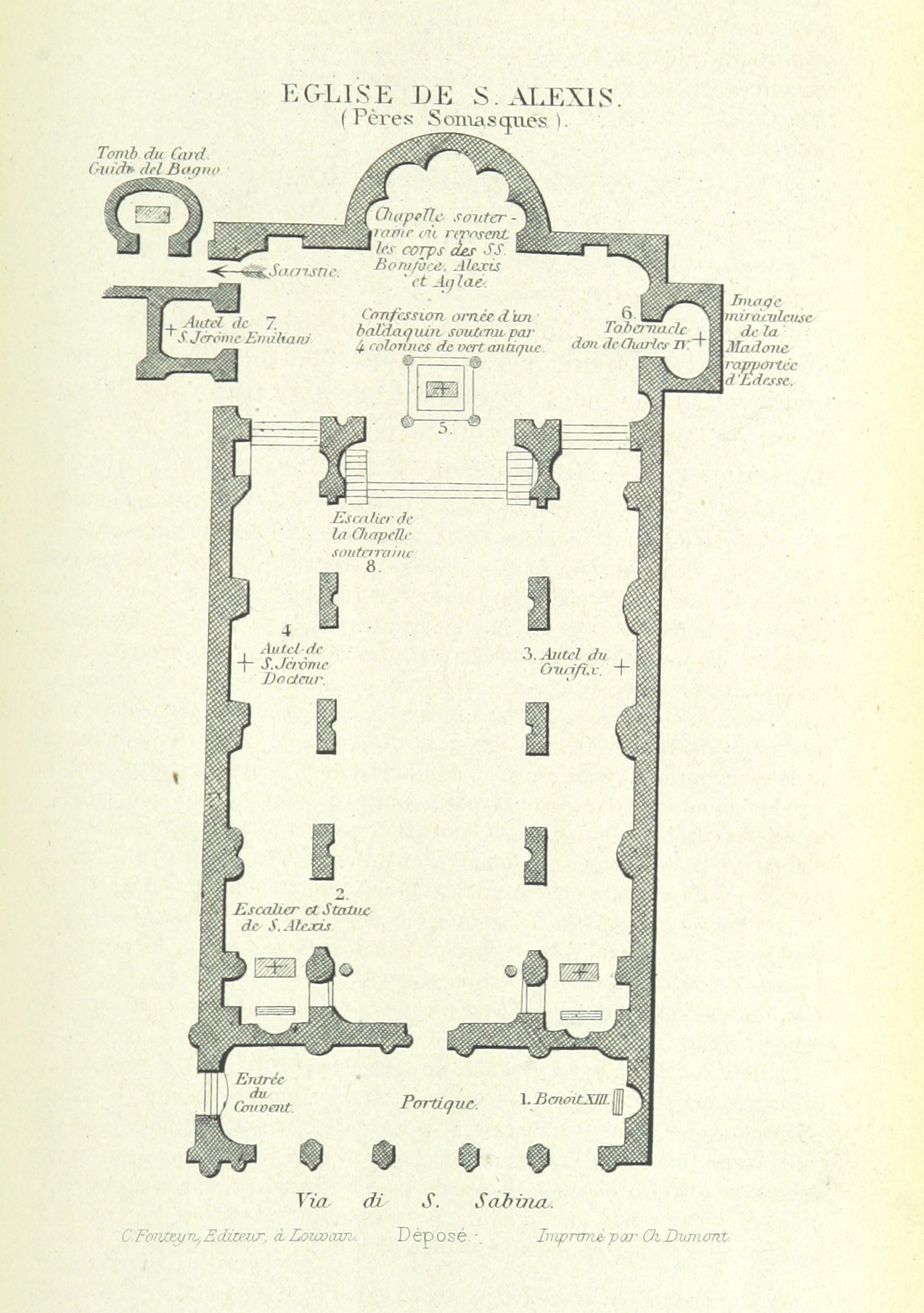 View this map on the BL Georeferencer service. Image taken from: Title: "Rome et ses monuments. Guide du voyageur catholique dans la capitale du monde chrétien ... Avec cinquante-et-un plans annotés" Author: BLESER, Édouard Philippe Jacques de. Shelfmark: "British Library HMNTS 10136.i.22." Page: 225 Place of Publishing: Louvain Date of Publishing: 1866 Issuance: monographic Identifier: 000376073 Explore: Find this item in the British Library catalogue, 'Explore'. Download the PDF for this book (volume: 0) Image found on book scan 225 (NB not necessarily a page number) Download the OCR-derived text for this volume: (plain text) or (json) Click here to see all the illustrations in this book and click here to browse other illustrations published in books in the same year. Order a higher quality version from here.